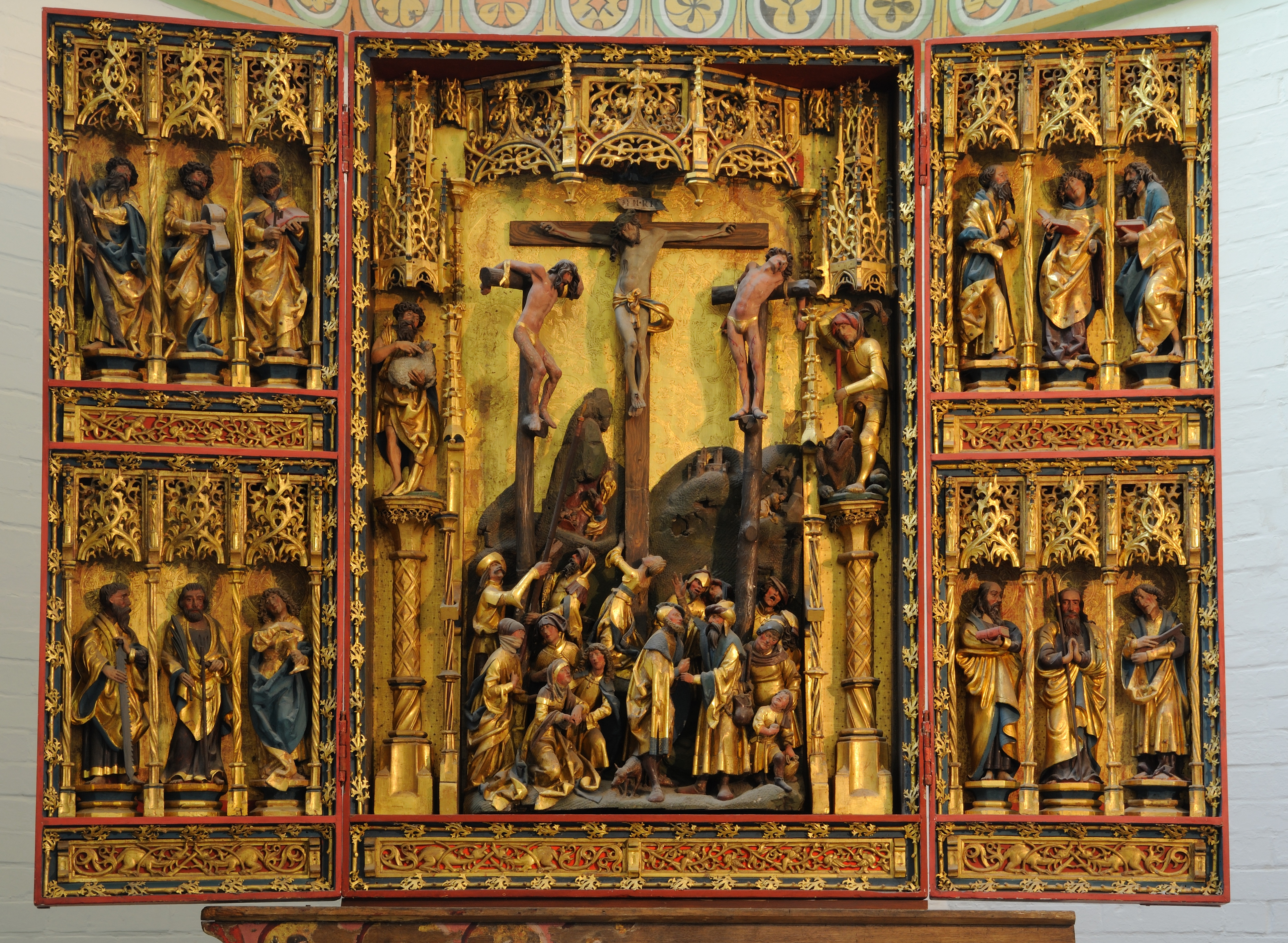 Christening altar in Saint Johannis Church in Lüneburg, Lower Saxony, Germany.